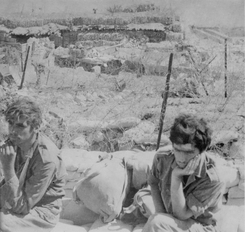 IDF prisoners of war in one of the fortifications of the Israeli Bar Lev Line. In the background is an Israeli M60 tank.